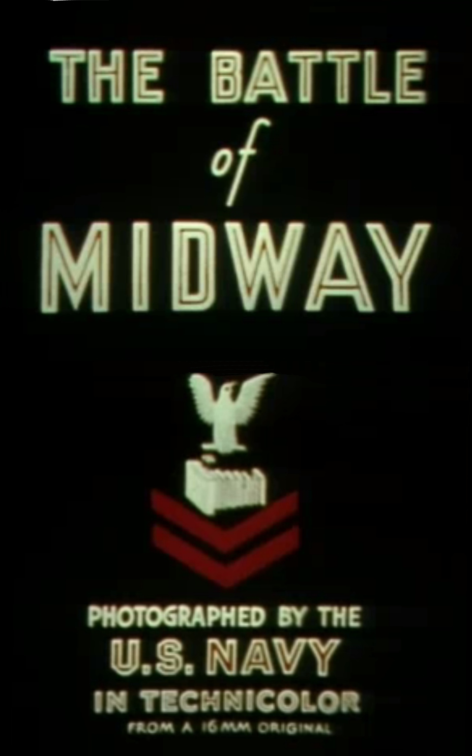 Combination of the second and third screenshot of the intro of the U.S. Navy 1942 documentary "The Battle of Midway".